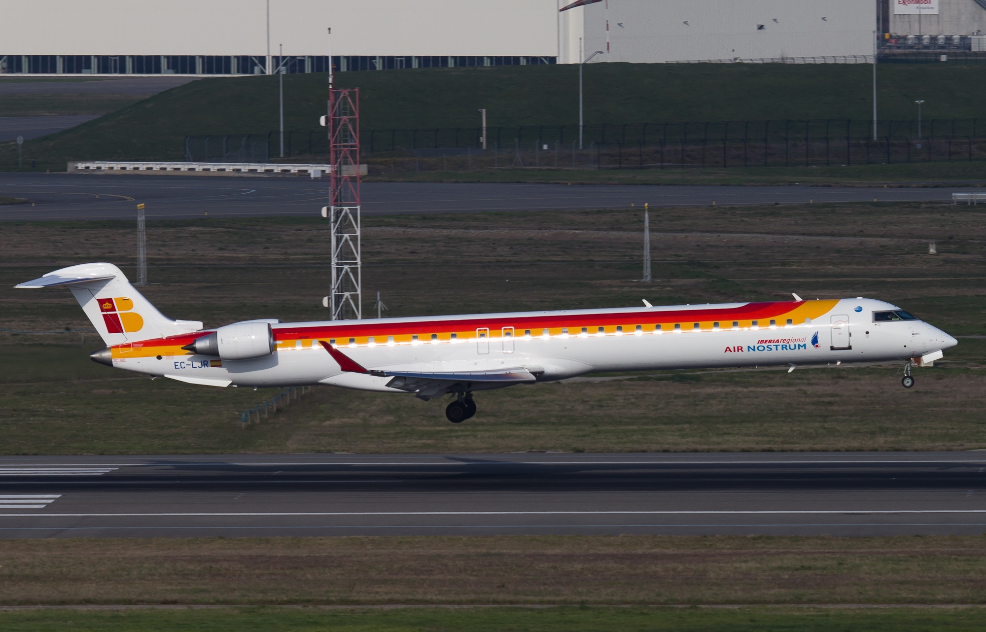 Air Nostrum CRJ1000 (registration EC-LJR) landing at Toulouse-Blagnac Airport, France.